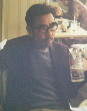 Mr.Ilie, a great teacher in Japanese tutoring school